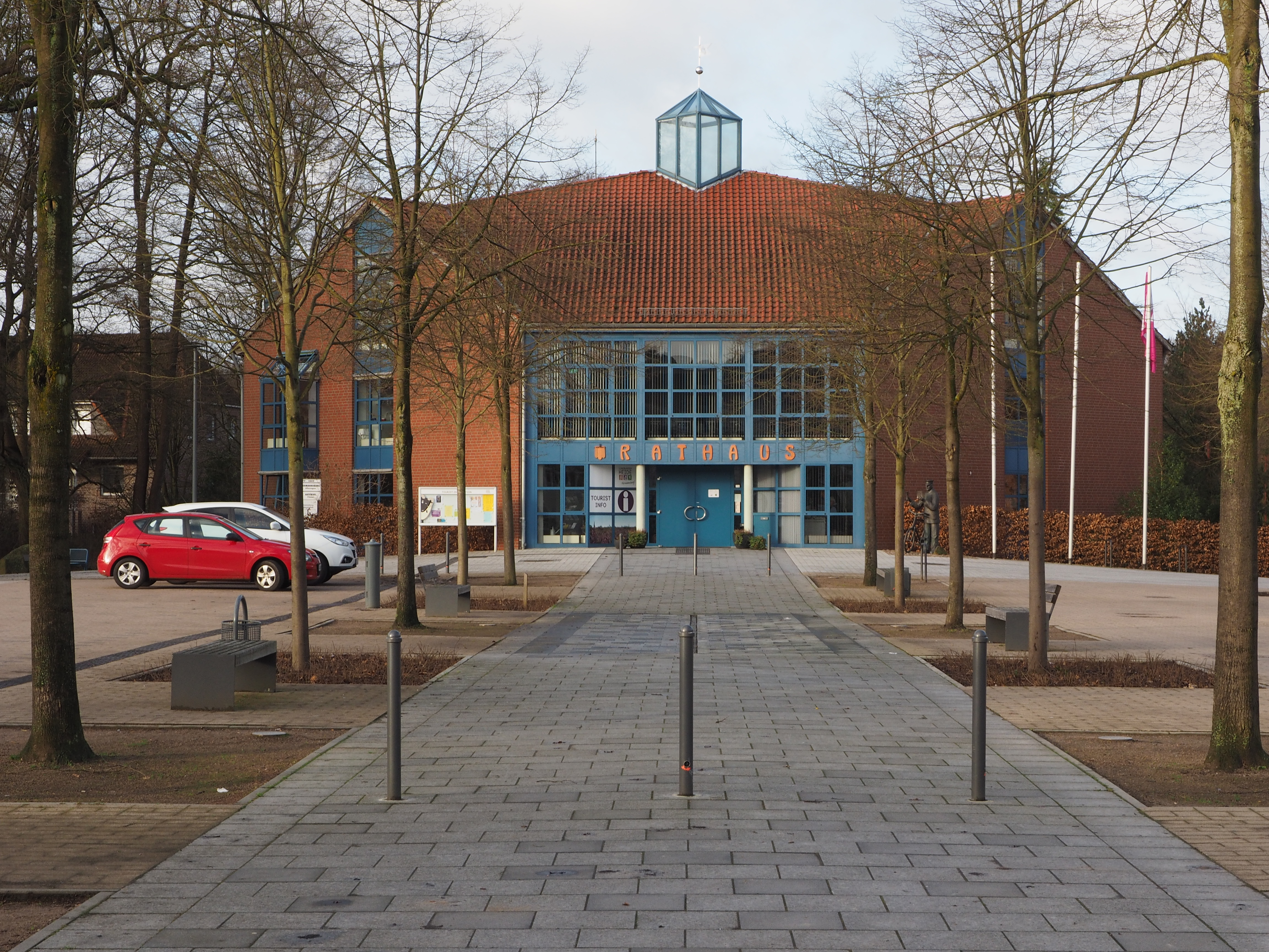 Hermannsburg town hall, Lower Saxony, Germany.